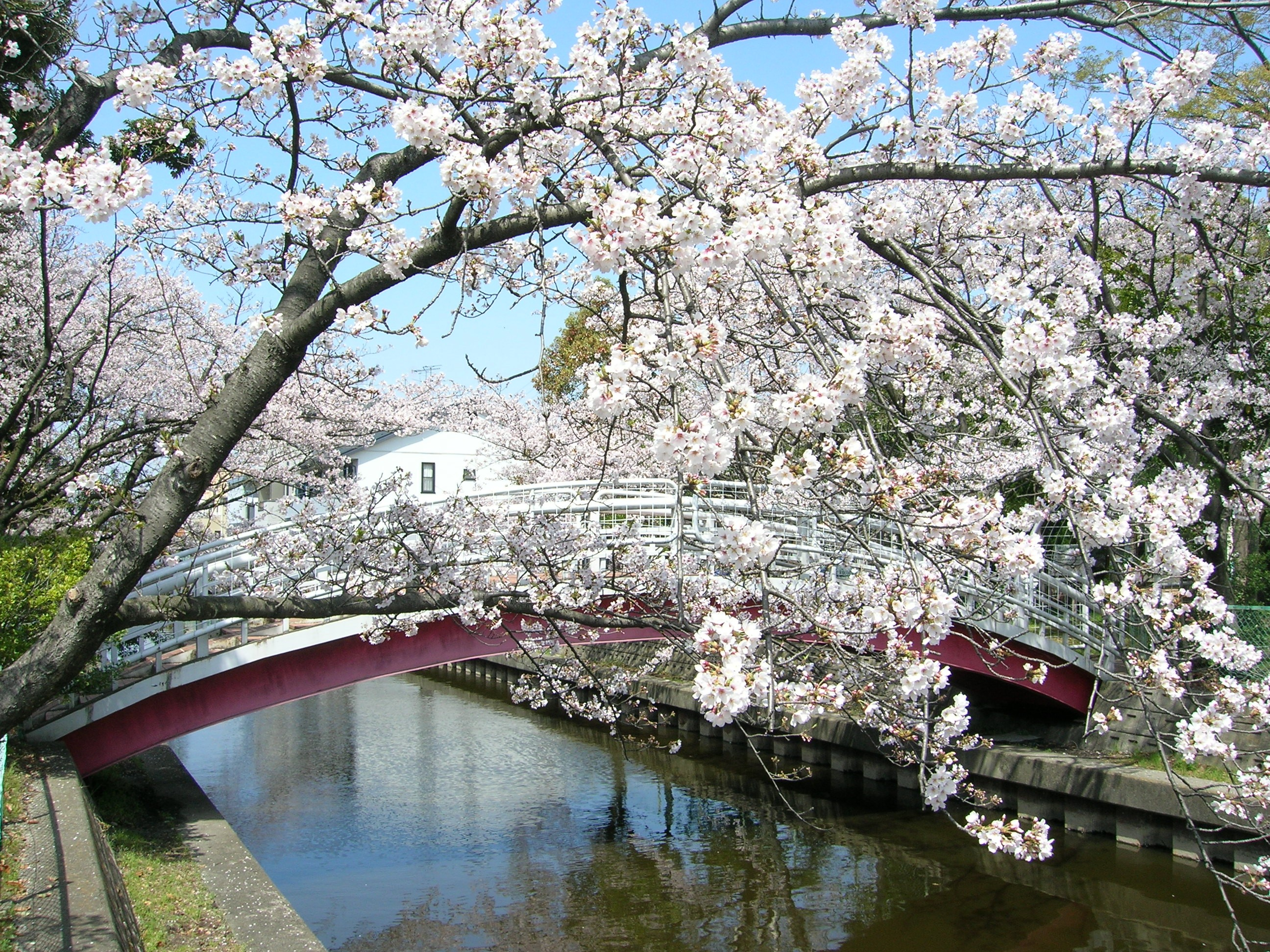 Saya-gawa (Saya river) Loc: Kanie town, Ama District, Aichi Prefecture, Japan. 佐屋川 撮影場所 蟹江町八幡2丁目・佐屋川創郷公園から上流方向